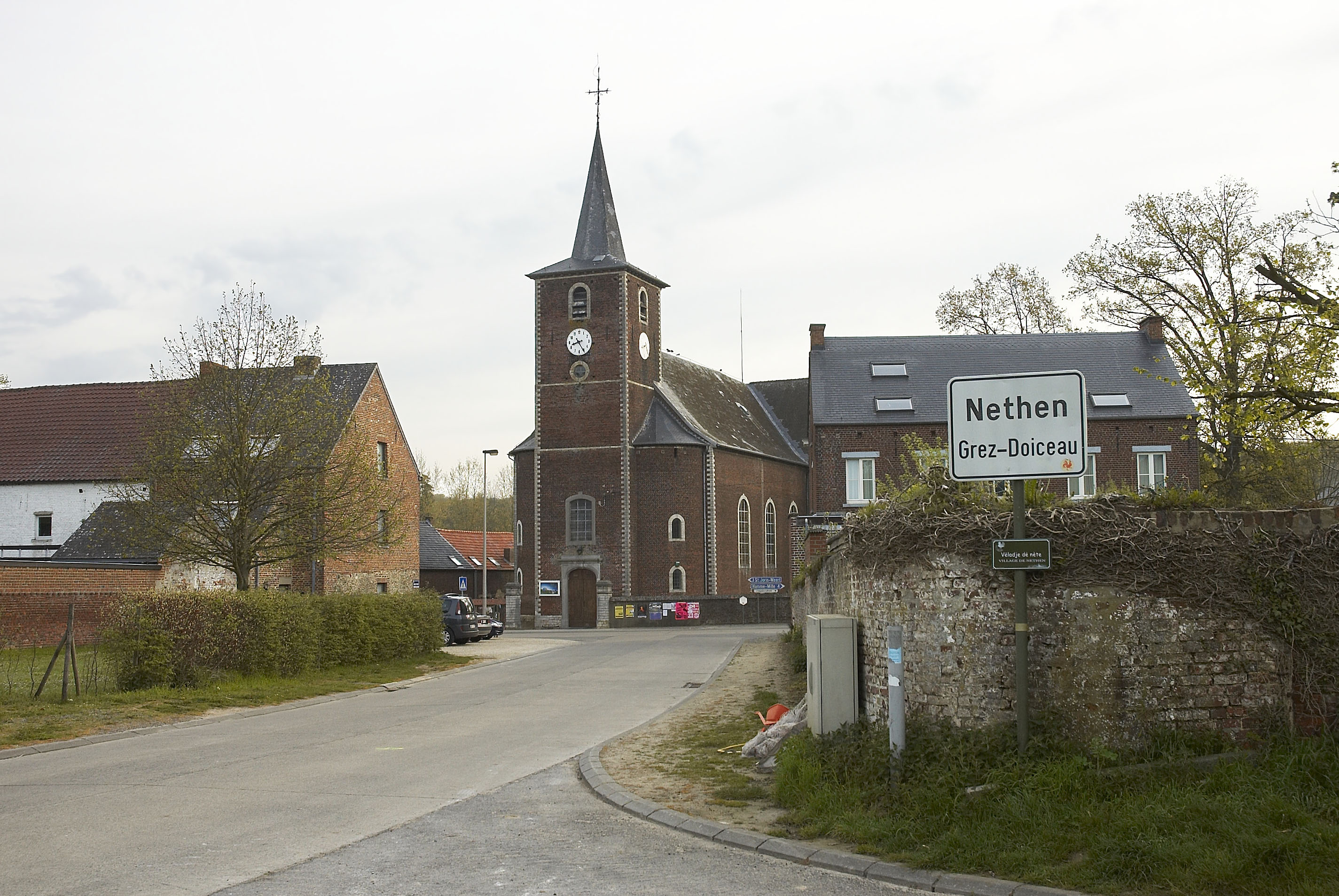 Church "Saint Jean Baptiste" in Nethen (Grez-Doiceau) - Google Maps - Google Earth